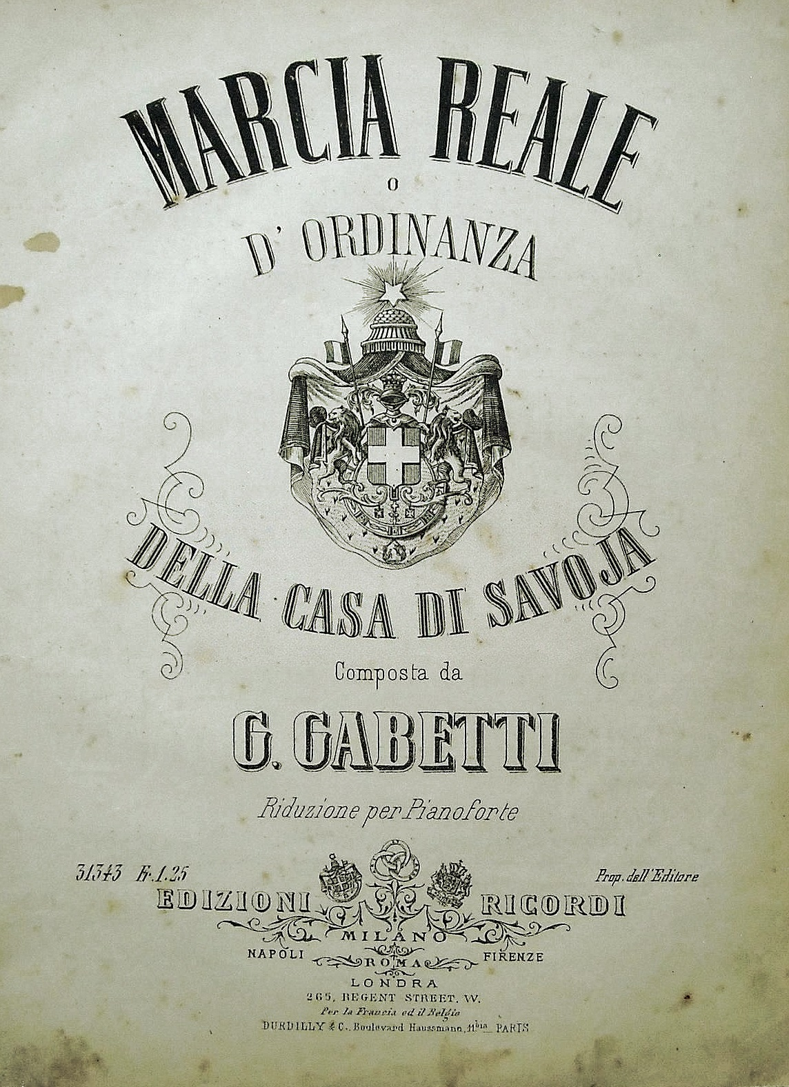 Title page of a piano reduction of the Royal March of Giuseppe Gabetti. Some details of the coat of arms, as the absence of the Iron Crown, place the publication before the 1890.